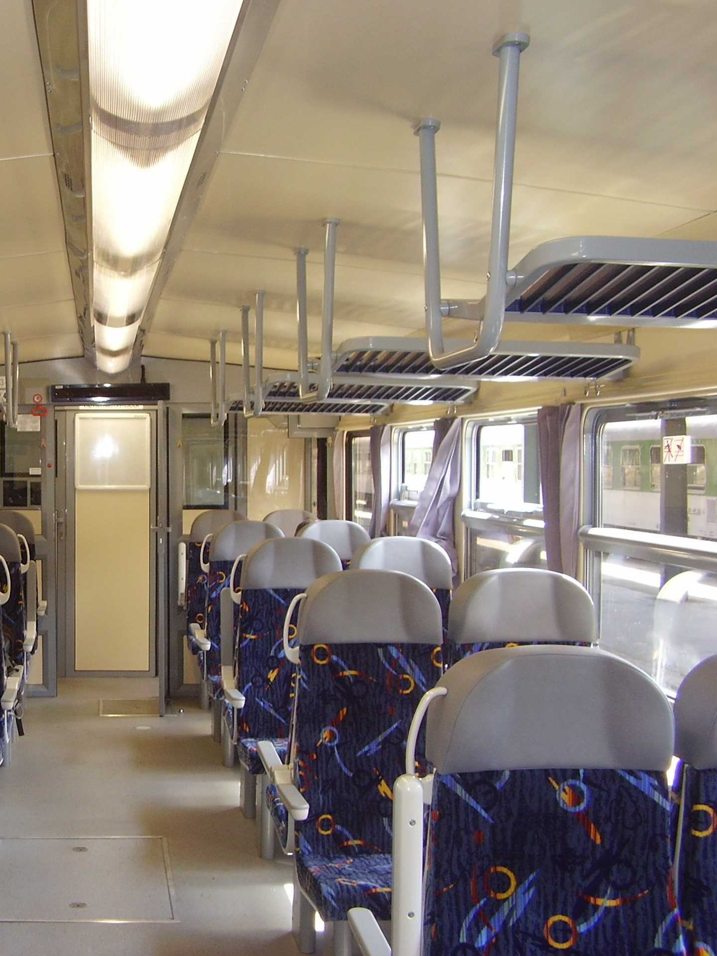 Inside of diesel unit 814